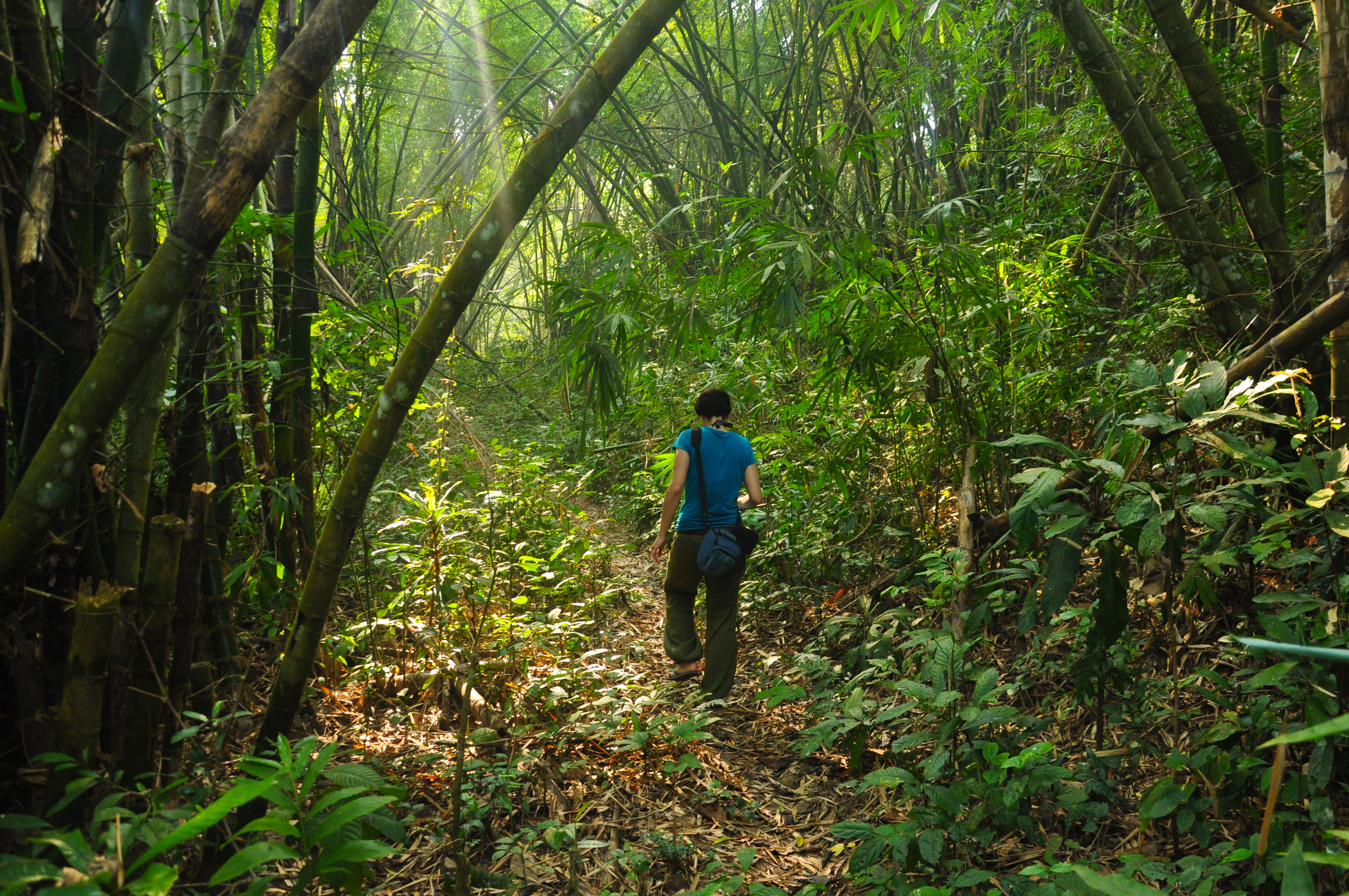 A walk through Lawachara National Park of Bangladesh